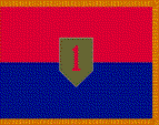 1st Infantry Divisional Flag